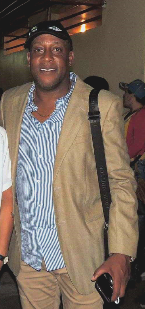 Hernan Medford, Costa Rican coach.